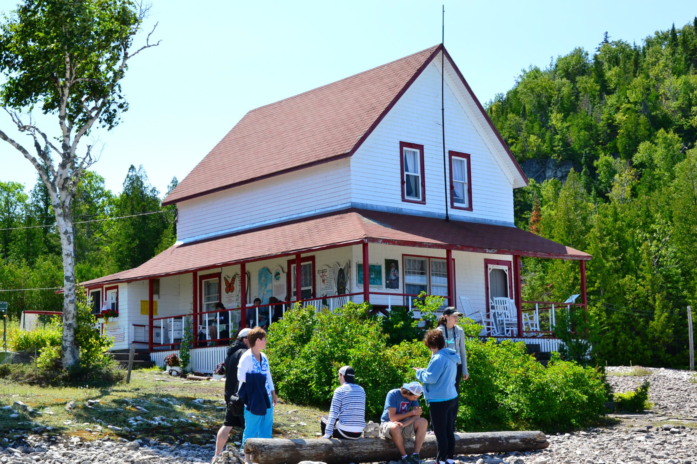 Flowerpot Island in Ontario, Canada - lightkeepers' house